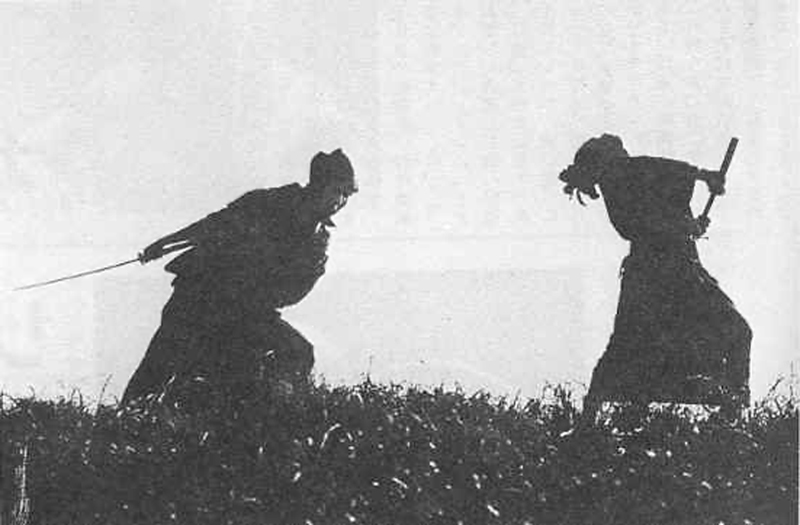 An aesthetic cut of the movie Roningai.